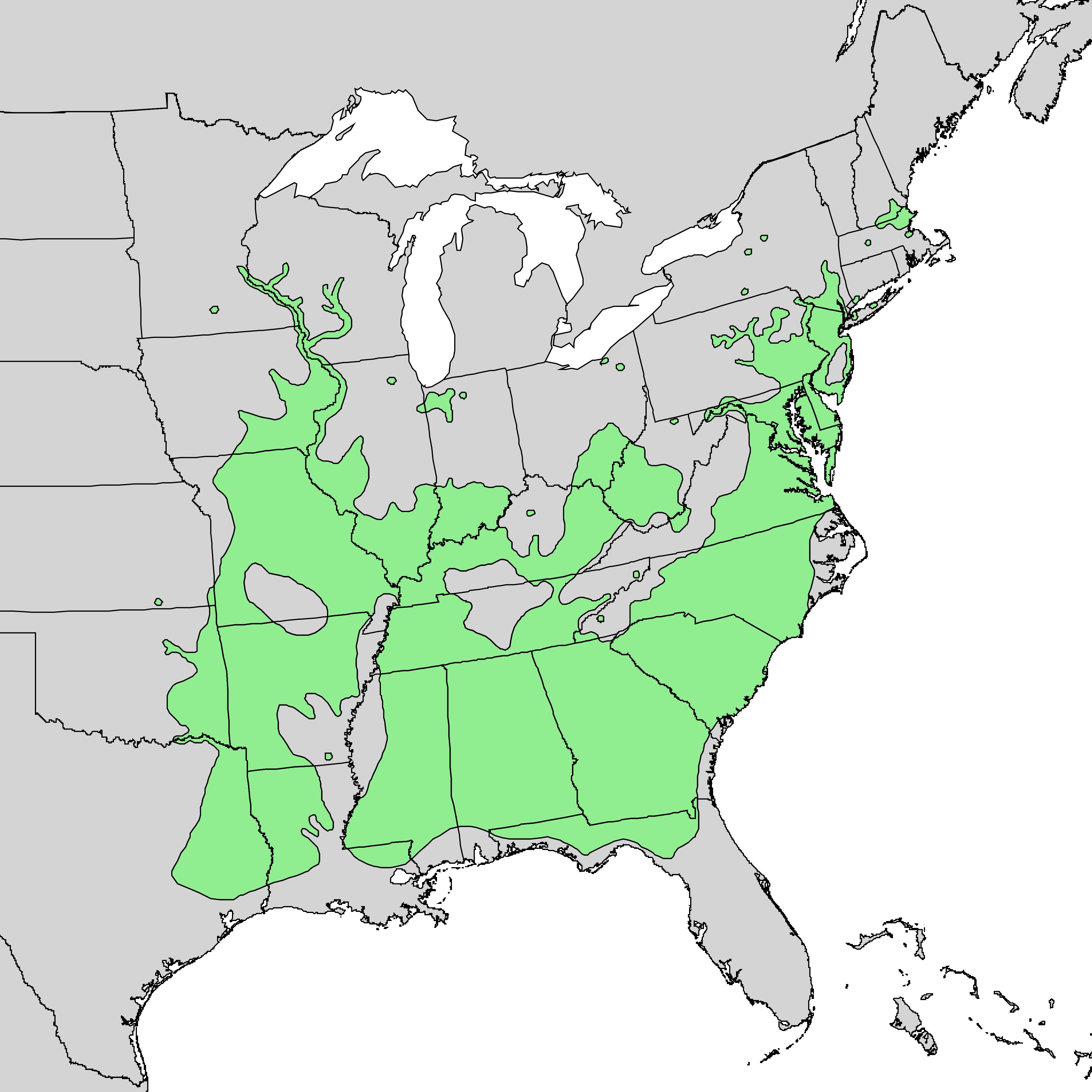 Natural distribution map for Betula nigra